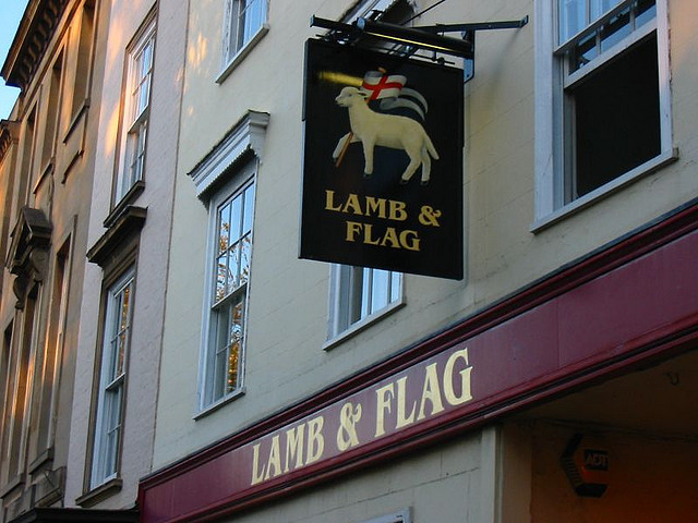 The Lamb & Flag Oxford pub sign.